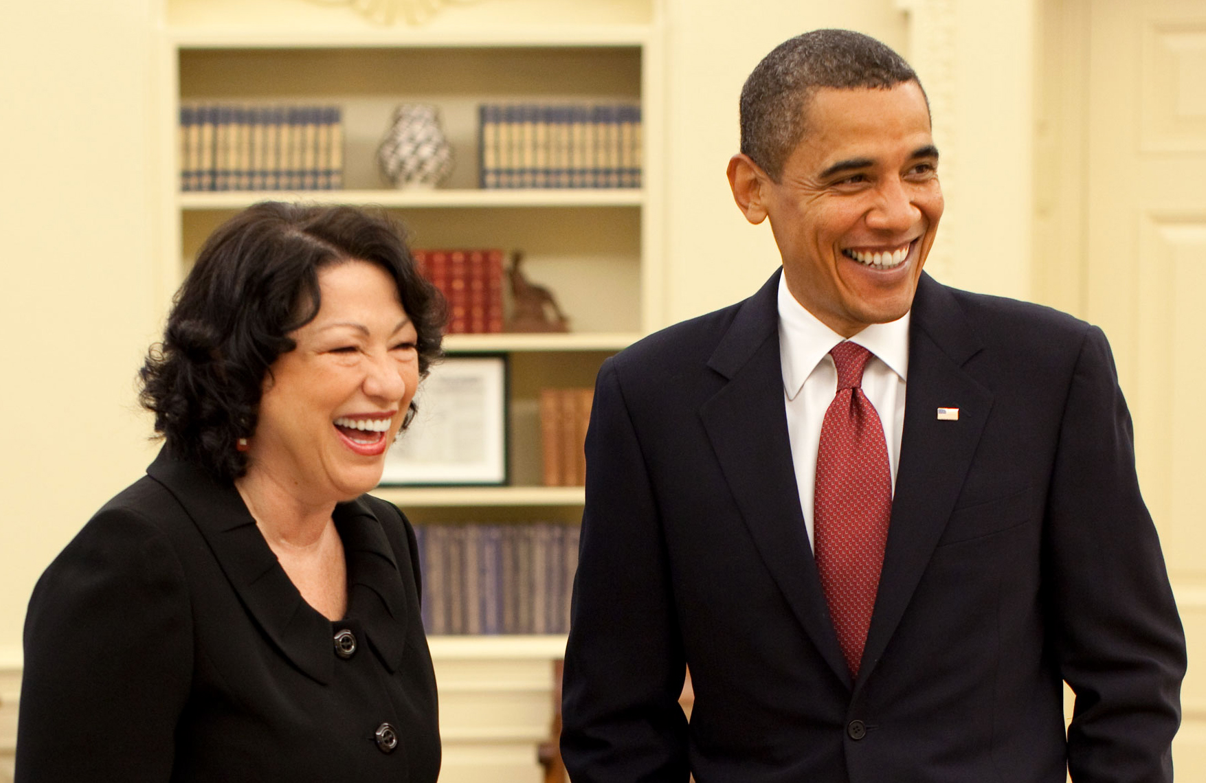 President Barack Obama and Justice Sonia Sotomayor meet in the Oval Office prior to a reception for the new Supreme Court Justice at the White House, on Aug. 12, 2009.